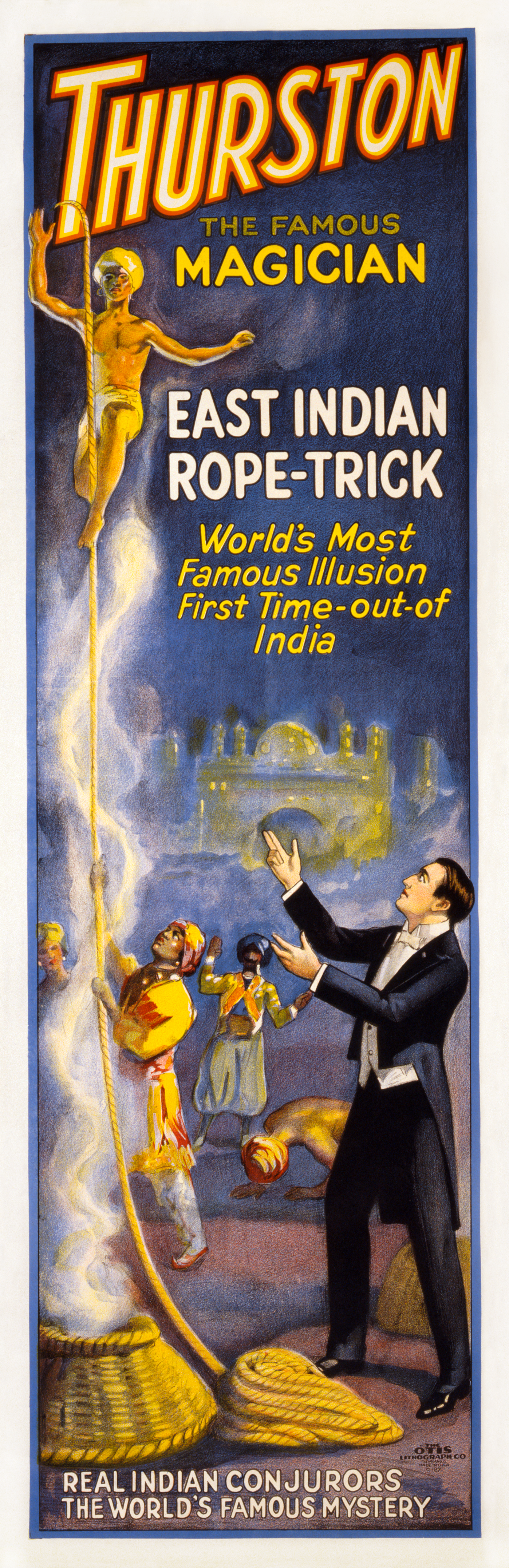 Poster advertising Thurston, the magician's reproduction of the (mythical) East Indian rope-trick. It claims that it's the first time out of India, though the truth value of early twentieth-century theatrical posters isn't always 100%.